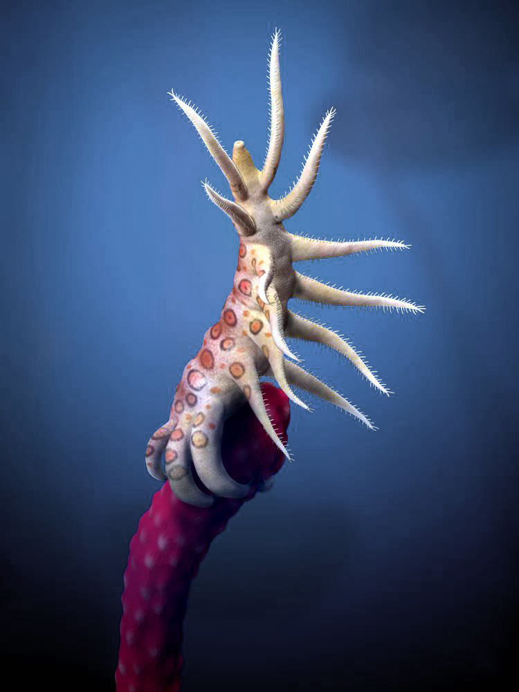 Life restoration of Ovatiovermis cribratus